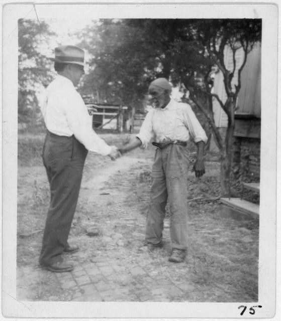 Folk song collector John Lomax (1867-1948) shaking hands with musician "Uncle" Rich Brown in Sumterville, Alabama, USA.